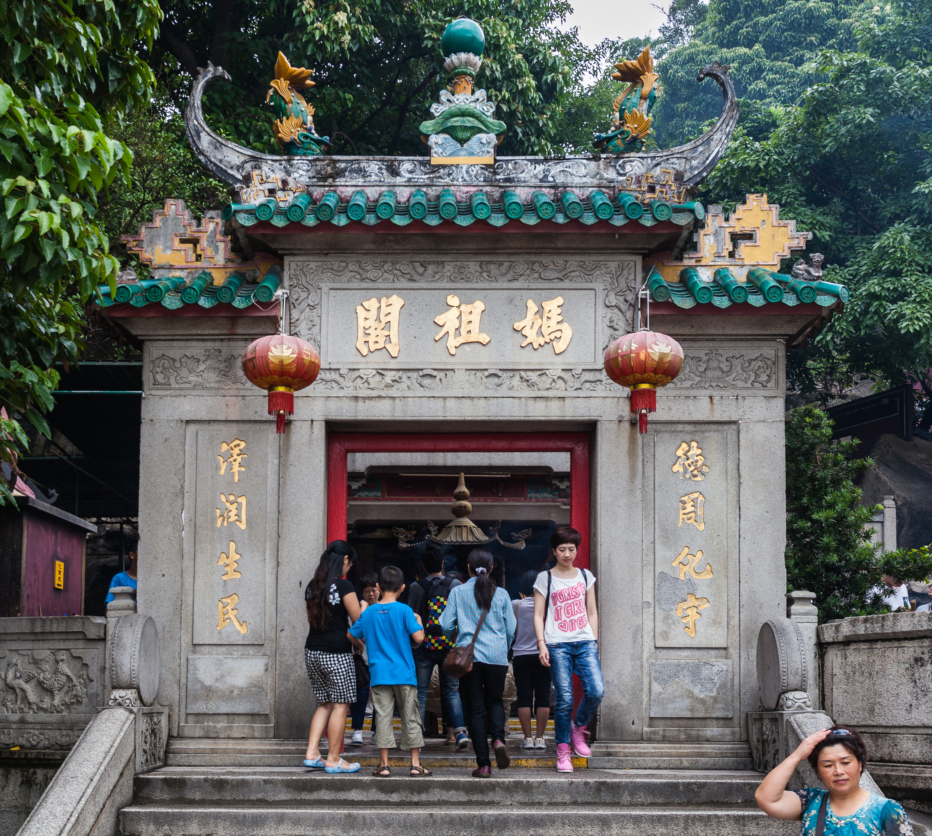 A-Ma Temple, Macau